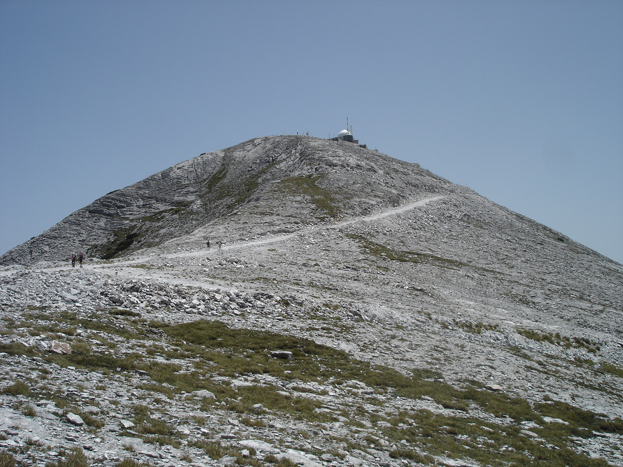 Solunska Glava peak, Macedonia